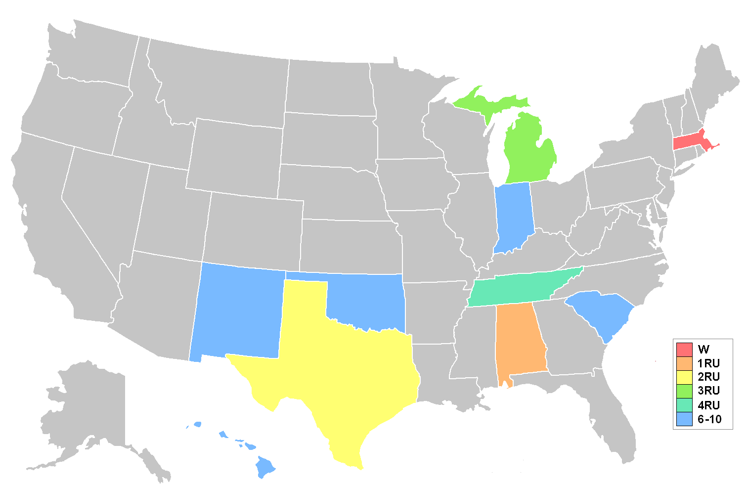 Map showing placements at the Miss USA 2003 pageant. Key on graphic shows colour coding for break down of placements.